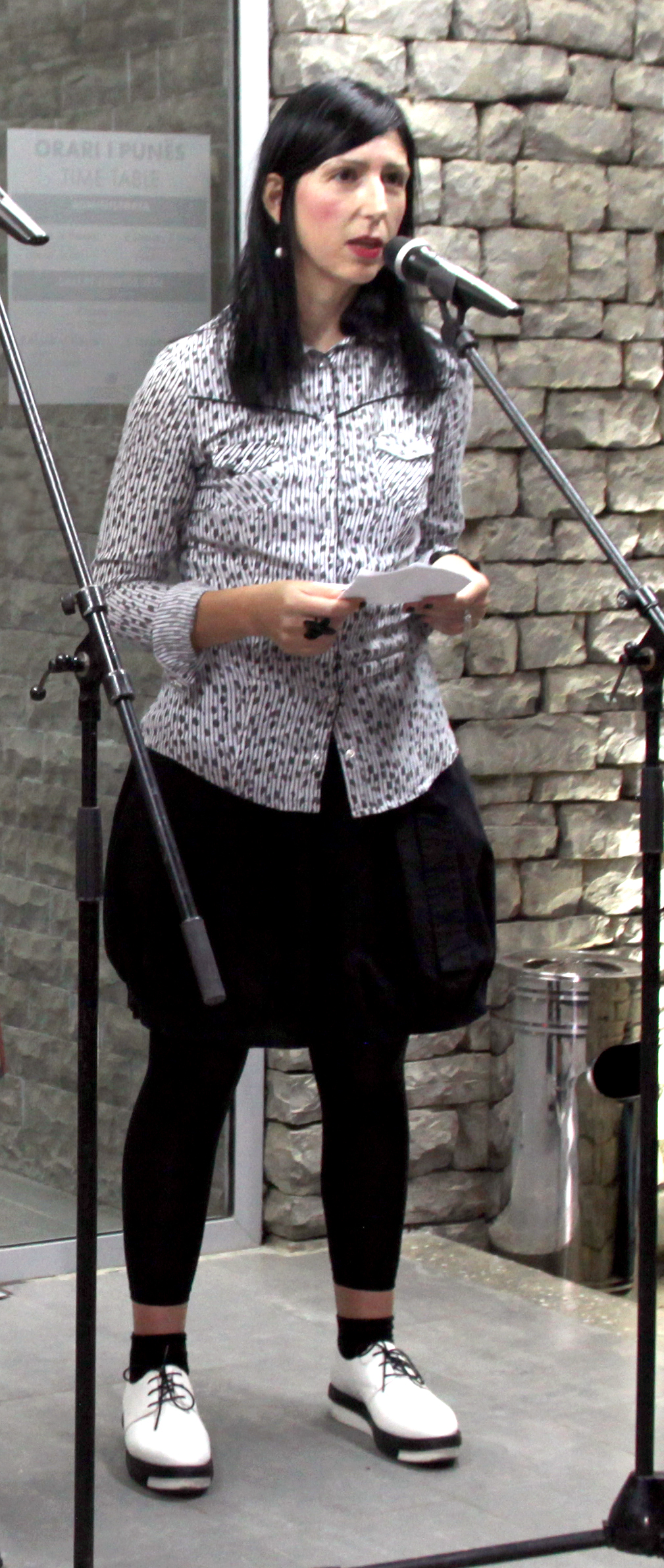 Depicted person: Vénera Kastrati – Albanian artist